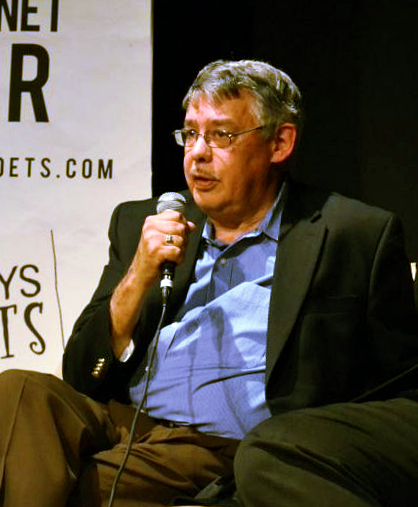 Juan González speaking at Busboys and Poets, Washington D.C. on Friday, October 28 2011. The event featuring Juan González, Joe Torres, and Amy Goodman.